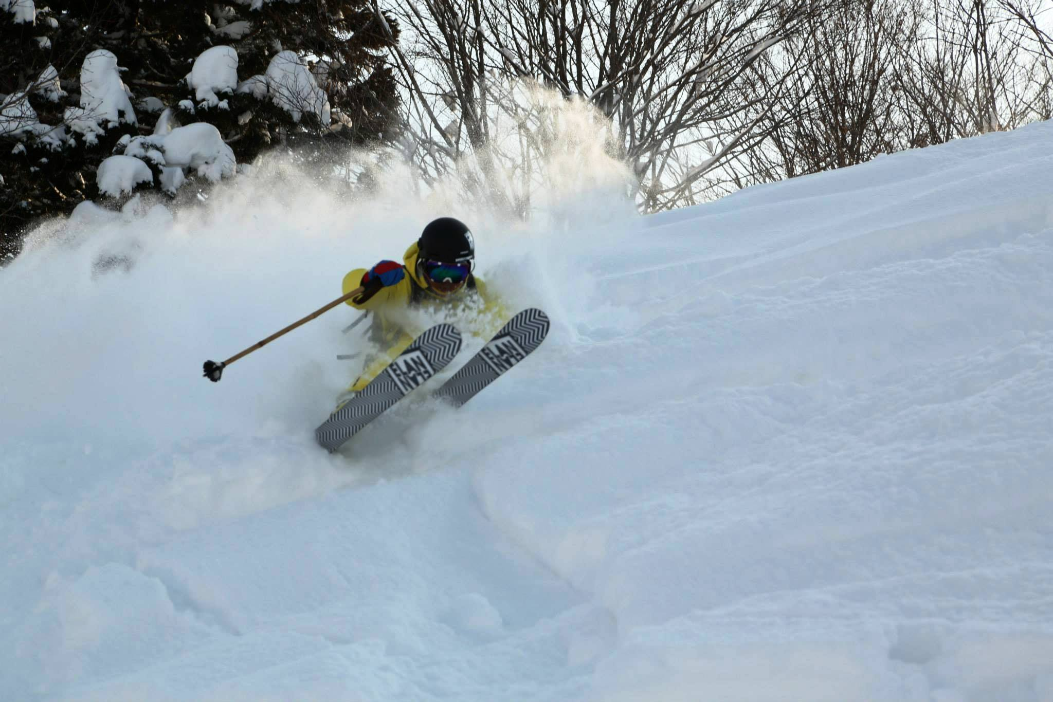 JAPANESE FREERIDE SKIER YOSUKE NAMPO. SKI ZERO FIGHTER.